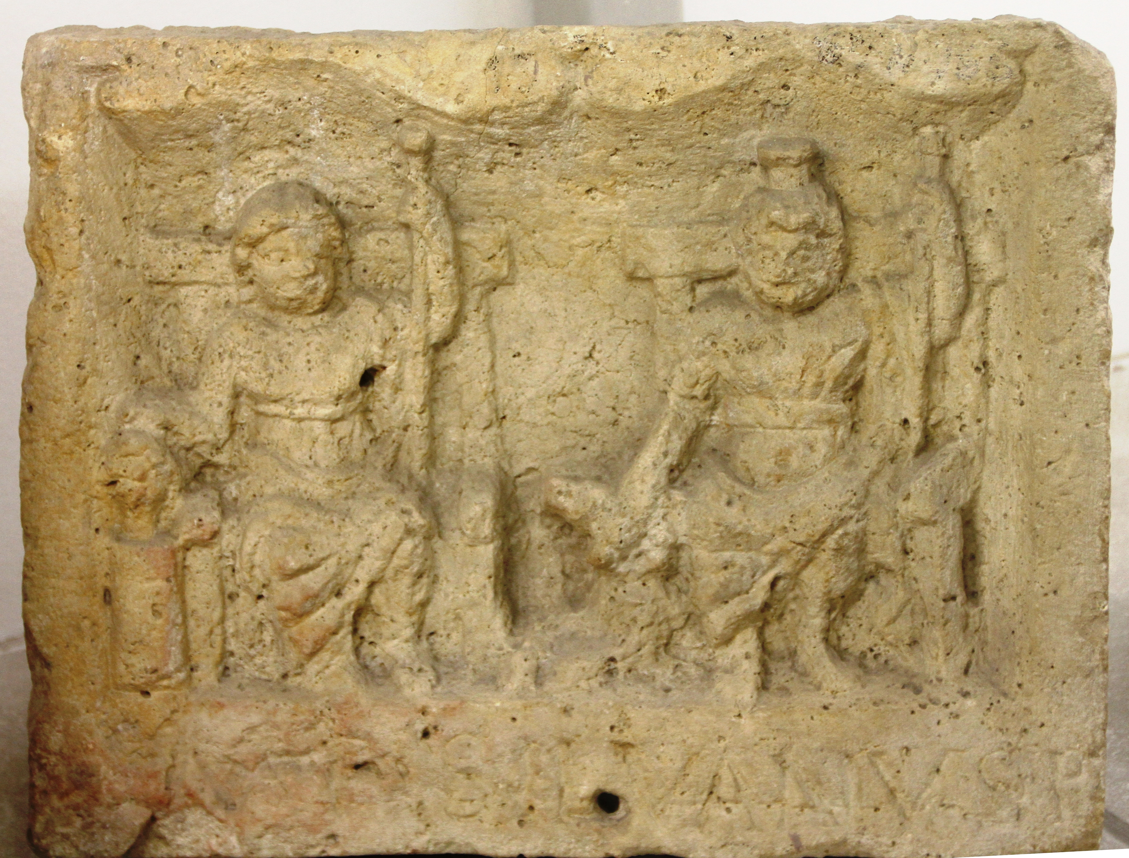 Religious tablet from Aquincum, 2-4th Century Hungary